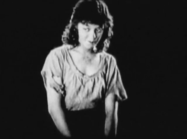 Film screenshot of Clarine Seymour in Scarlet Days (1919).